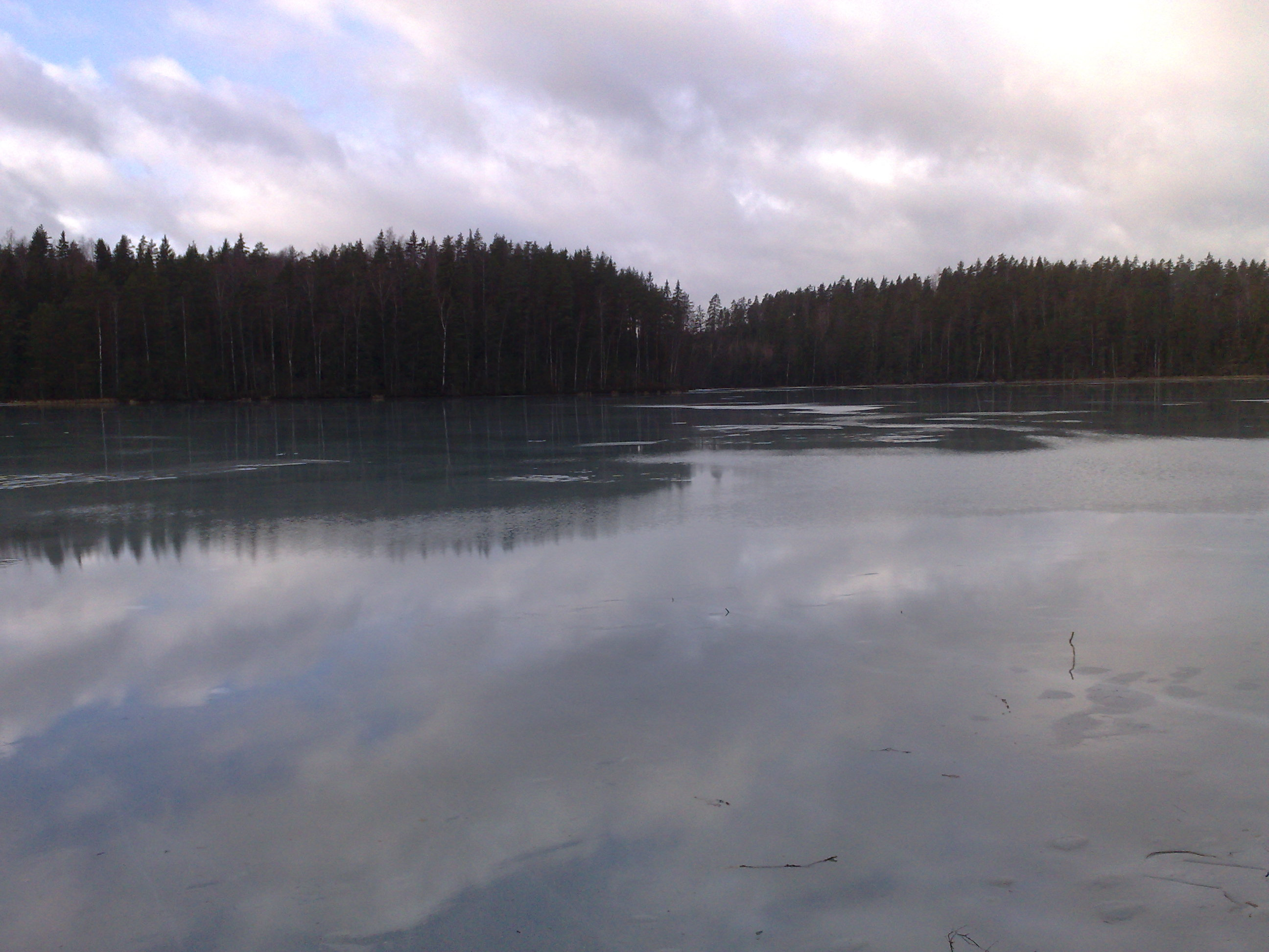 Iso-Valkee (lake) in Somero, Finland.